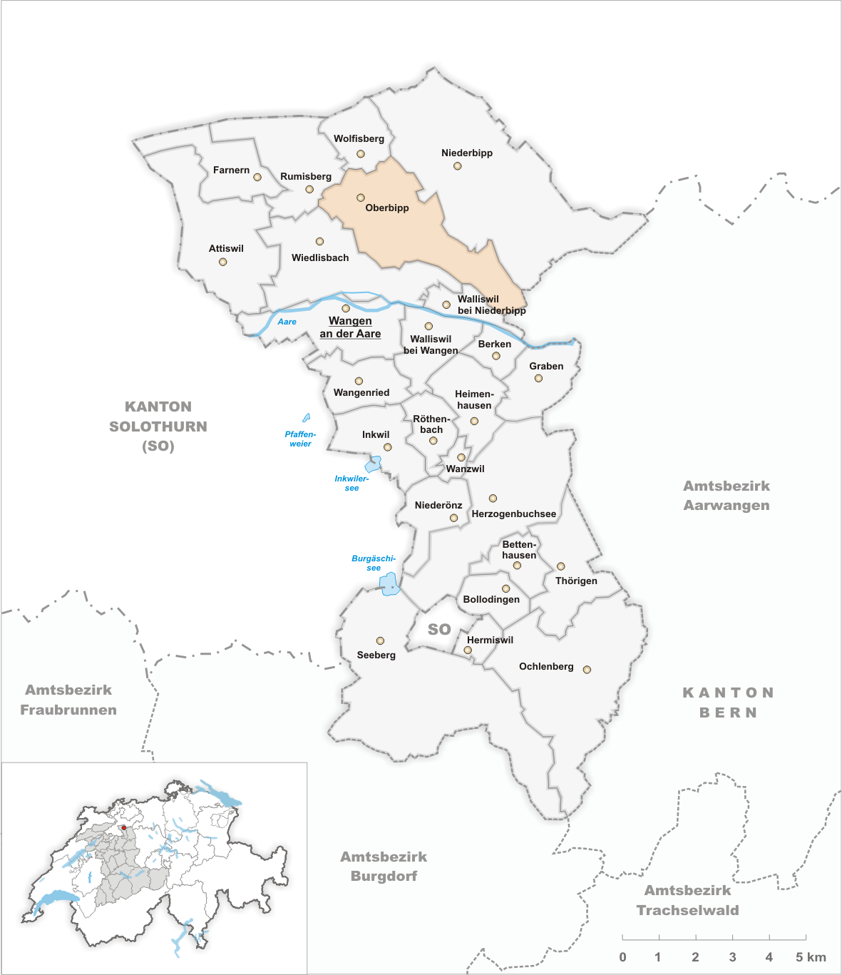 Municipality Oberbipp